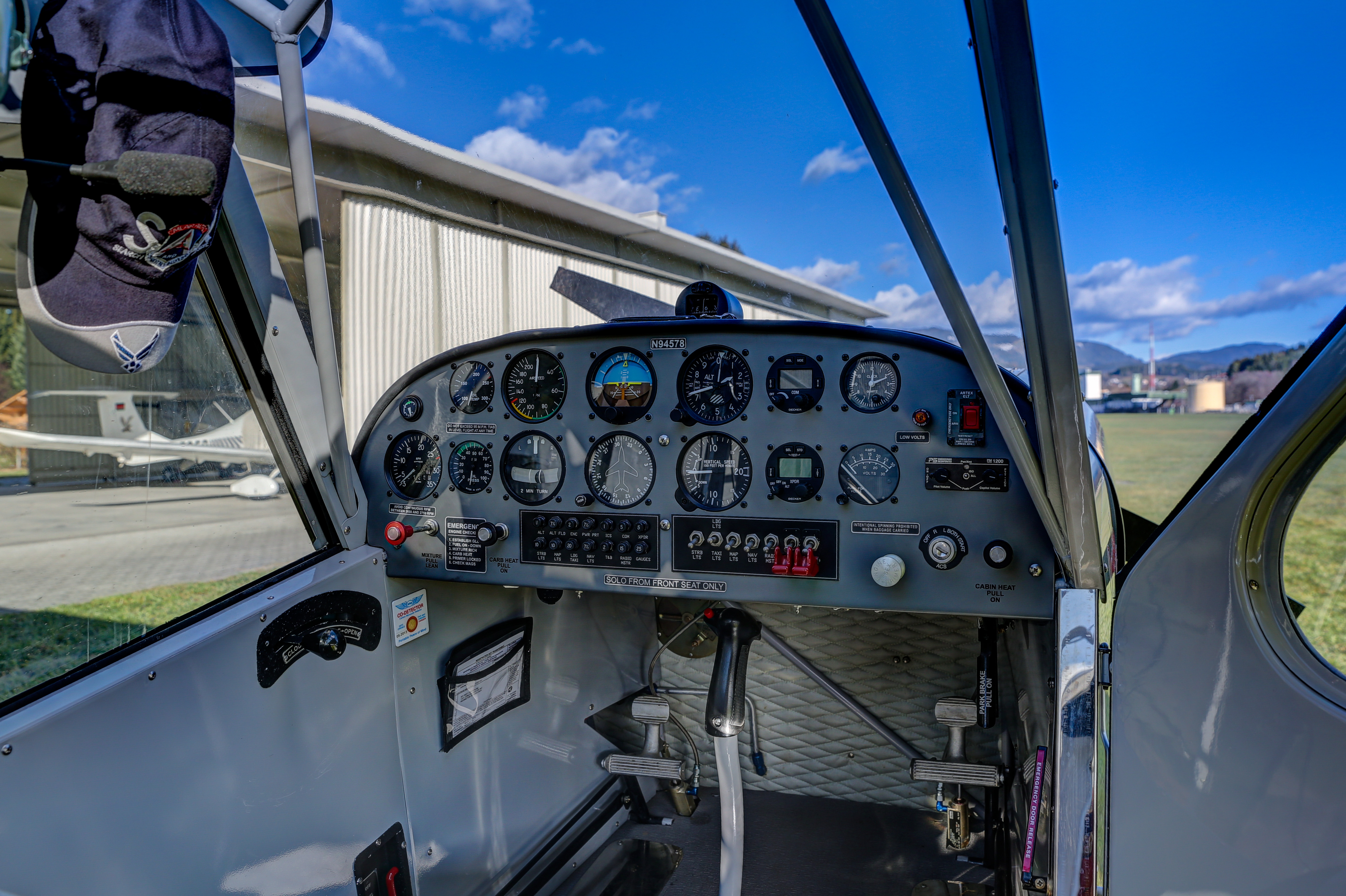 Cockpit of aircraft (Light Aircraft) Aeronca L-16 7BCM at the airfield of Feldkirchen in Carinthia / Austria / EU. This fully restored 1947 built aircraft was a liaison aircraft for the US Army,[2] as they were mainly used in the Korean War. It is a militarized version of the Aeronca Champion.